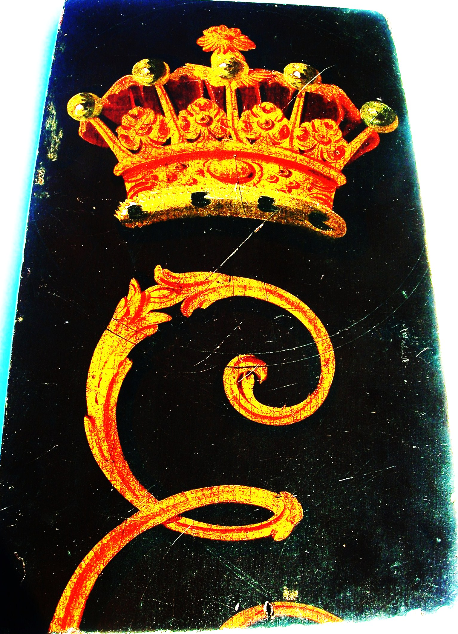 A panel from the carriage in which the 10th Earl of Eglinton was carried, dying, to Eglinton Castle after he was shot by Mungo Campbell in 1769.